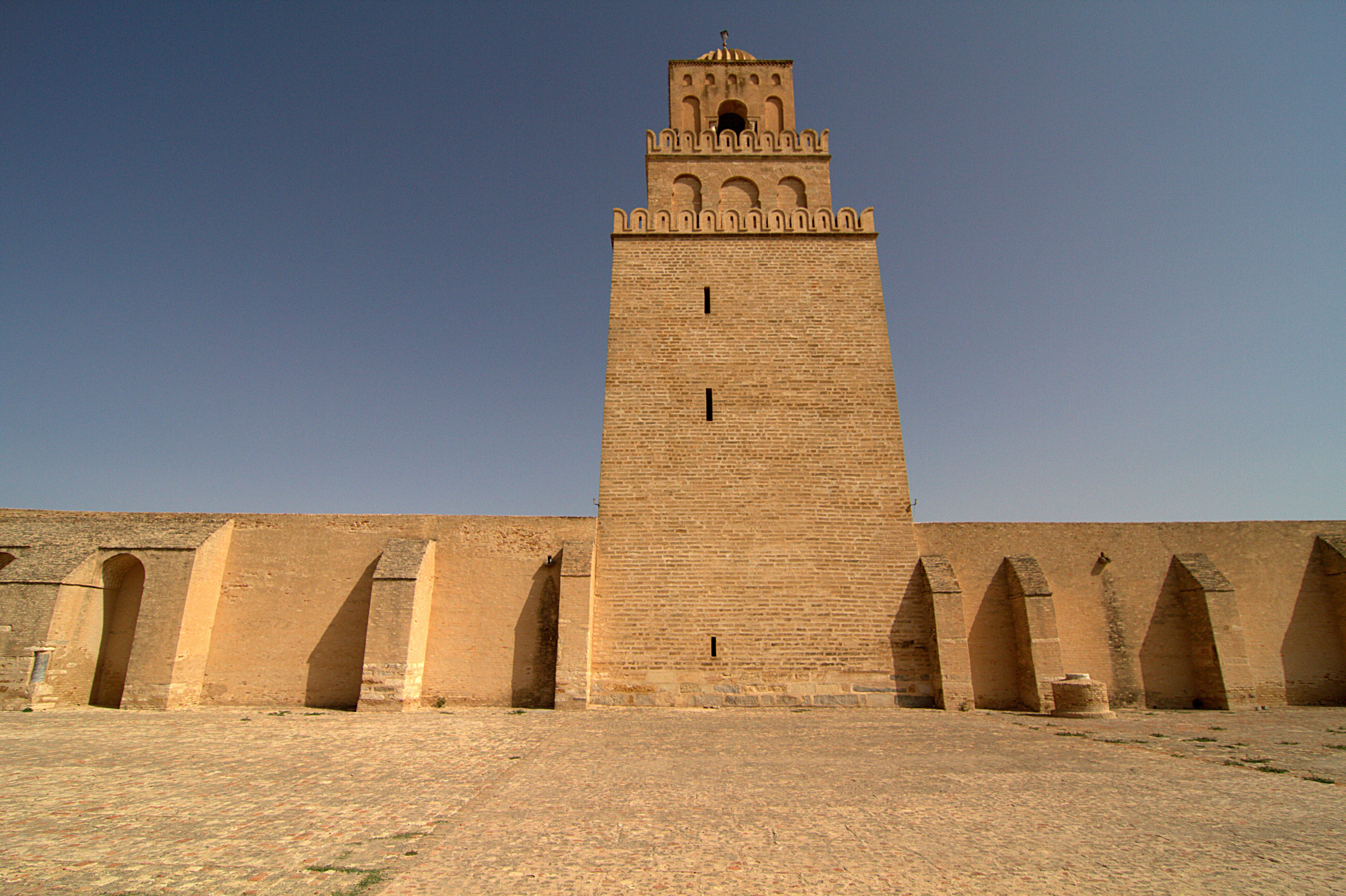 Minaret of the Great Mosque of Kairouan, Tunisia